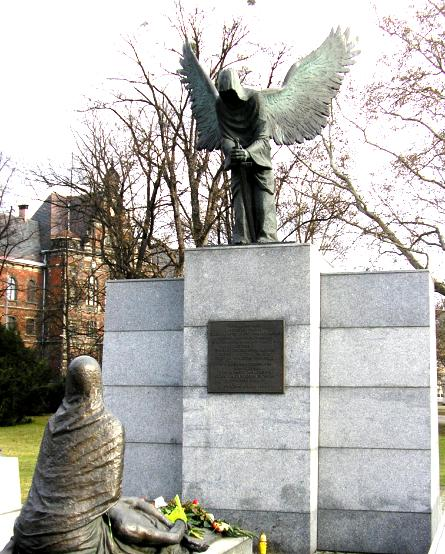 Memorial of the Katyn massacre in Wrocław